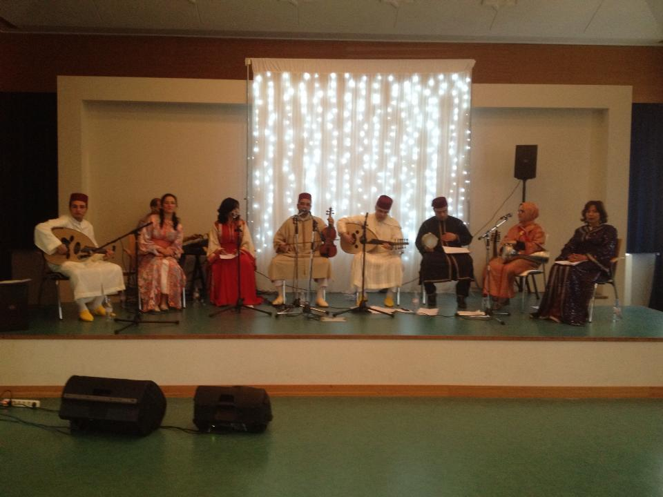 Oriental concert at the Maison du Maroc (Maroc House)